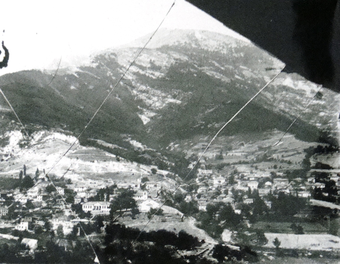 Panorama of the village Nižepole. Incomplete photo, 1905 This media file is produced by Wikipedian in Residence in Category:Wikipedian in Residence at DARM in 2016.